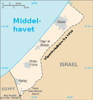 A map of the Gaza Strip showing key towns and neighbouring countries.